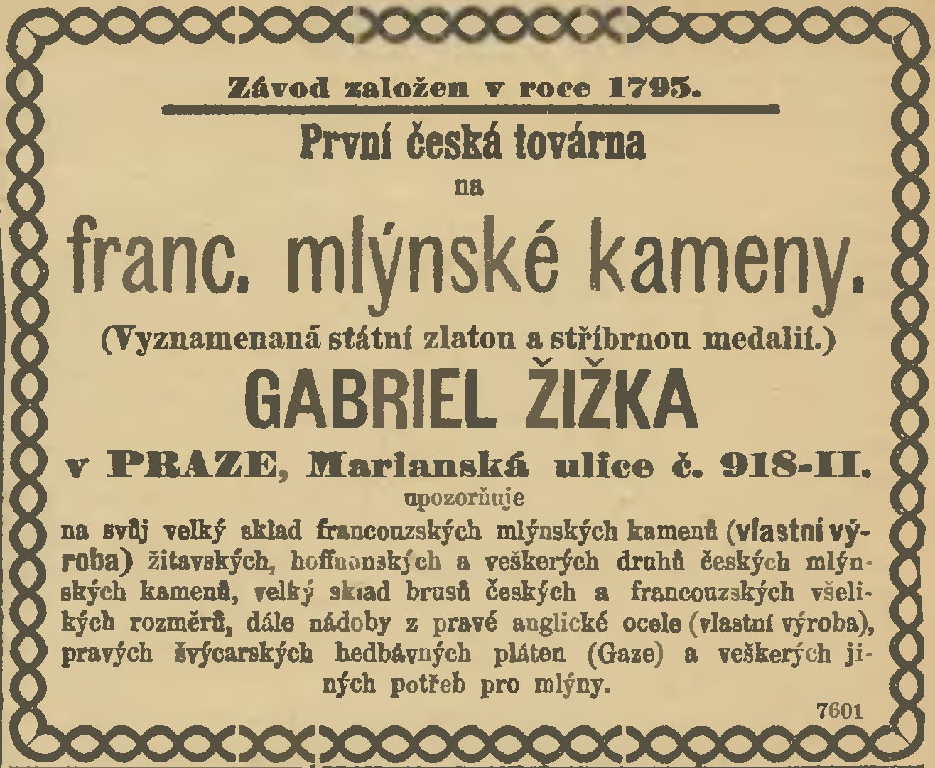 Advertisement of Gabriel Žižka´s millstone factory in Prague (present-day Czech Republic).